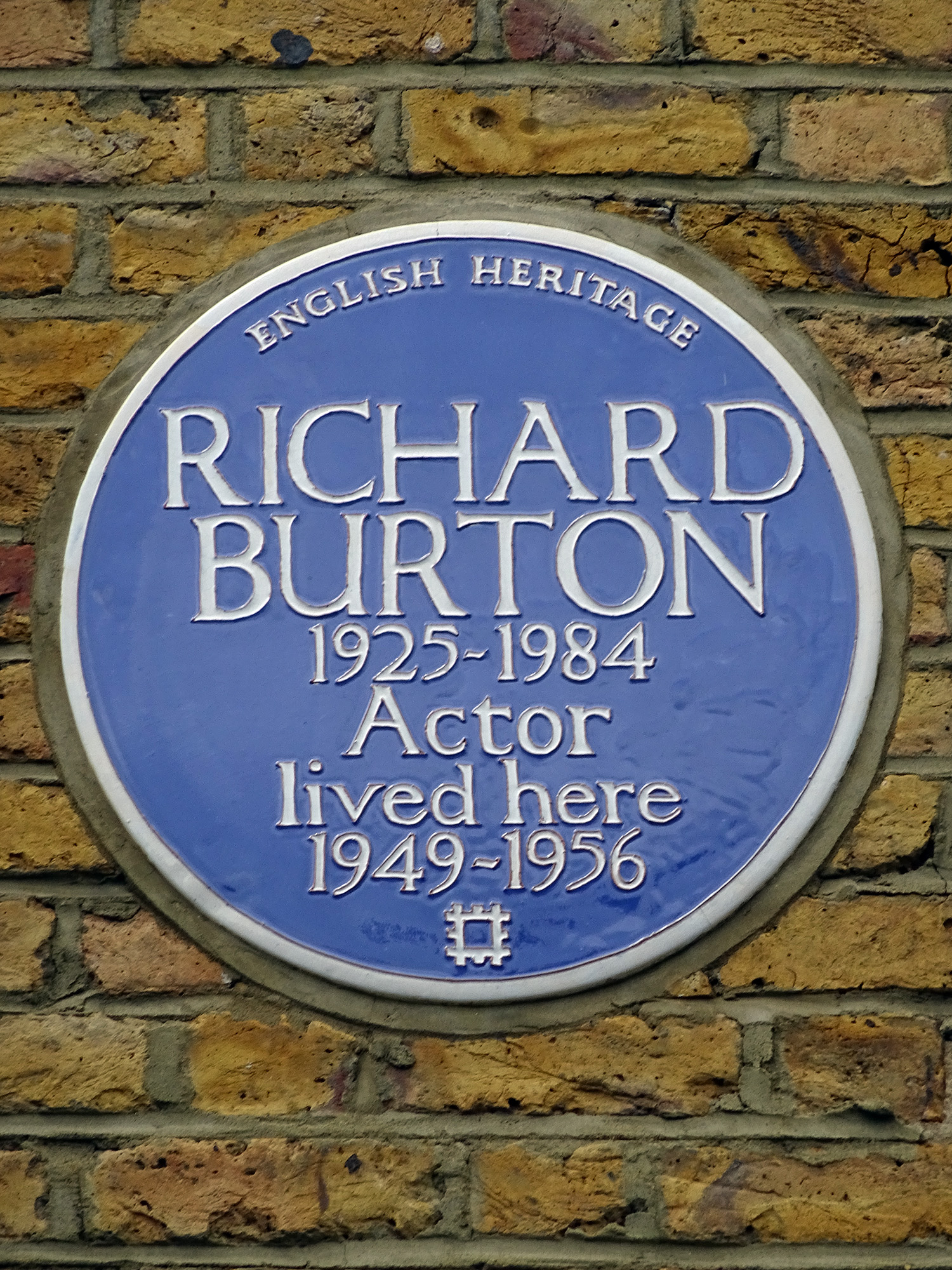 Blue plaque erected in 2011 by English Heritage at 6 Lyndhurst Road, Hampstead, London NW3 5PX, London Borough of Camden